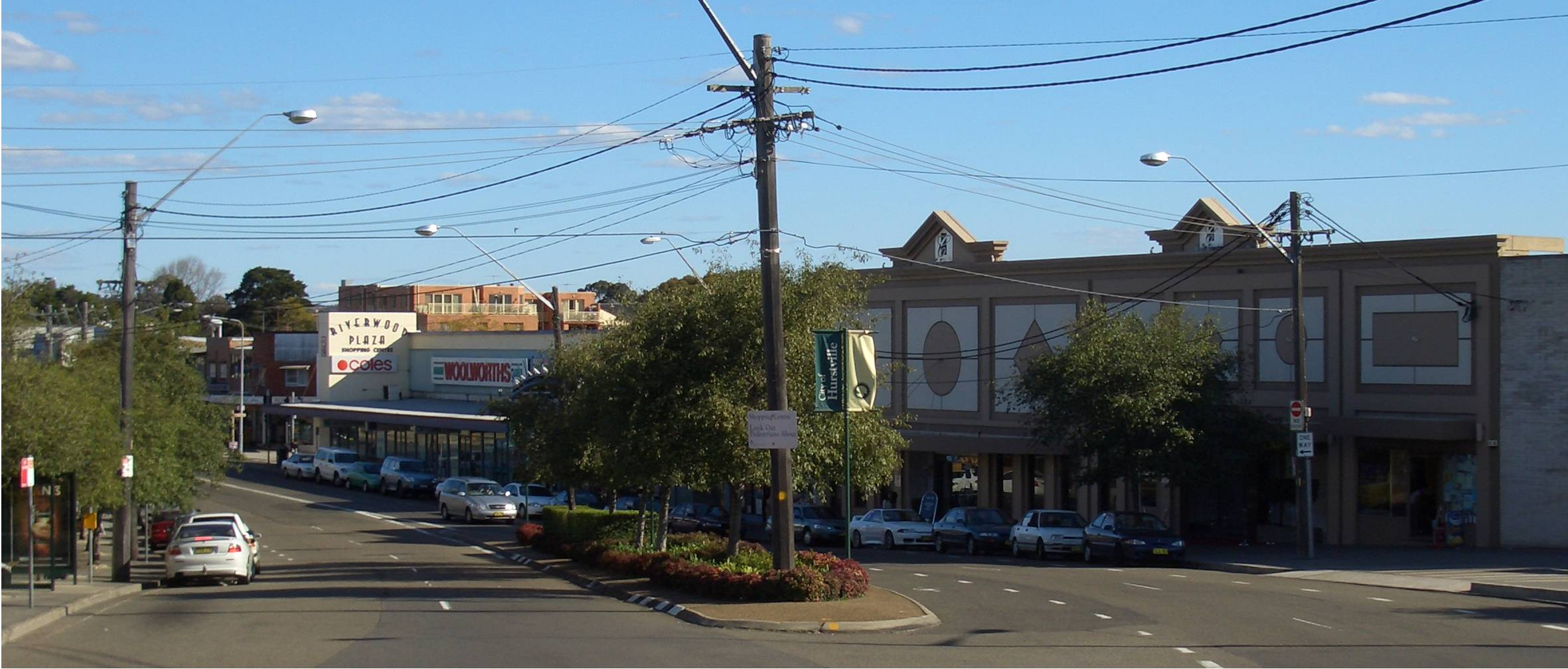 Riverwood, Sydney, Australia. I took the photo on the 19th August 2006. J Bar 06:00, 21 August 2006 (UTC)